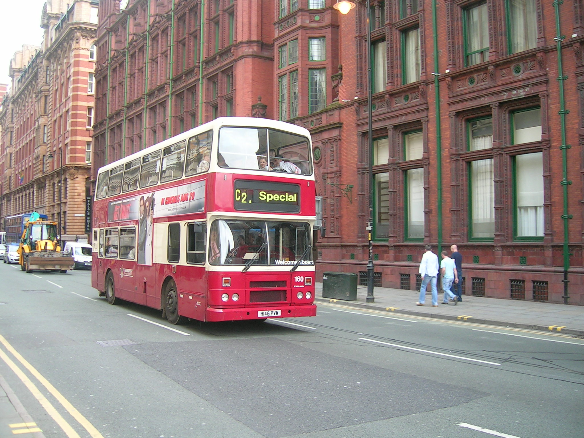 Whitworth Street in Manchester. Warrington Borough Transport bus 160 (reg. H146 PVW) is heading past the Refuge Assurance Building operating a special shuttle service taking ravers to the Creamfields festival.